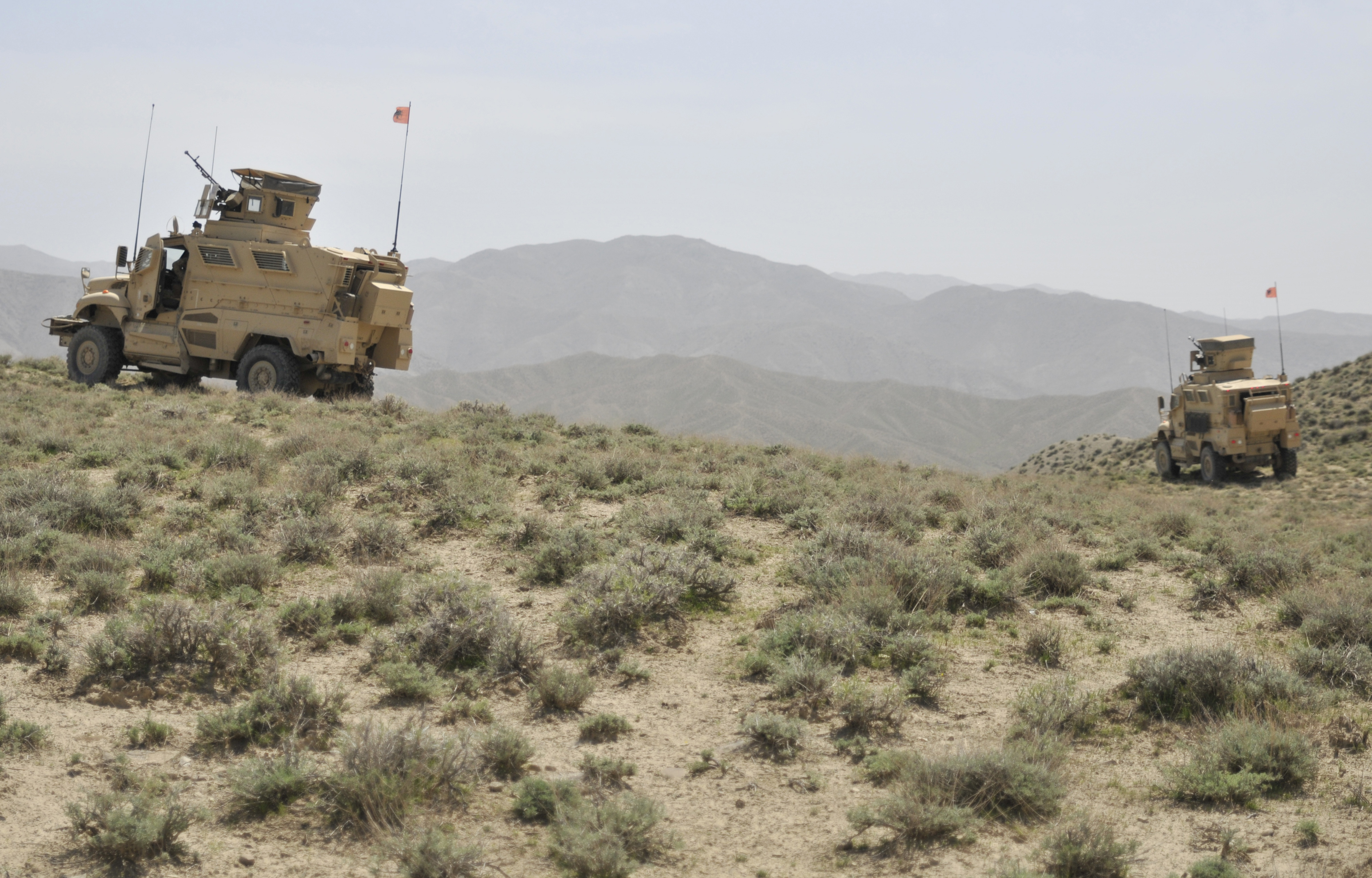 Mine-resistant, ambush-protected vehicles assigned to the Albanian special operations forces provide security for coalition forces at an Afghan Border Police checkpoint near the Afghanistan-Pakistan border in the Spin Boldak district of Kandahar province, Afghanistan, April 1, 2013.